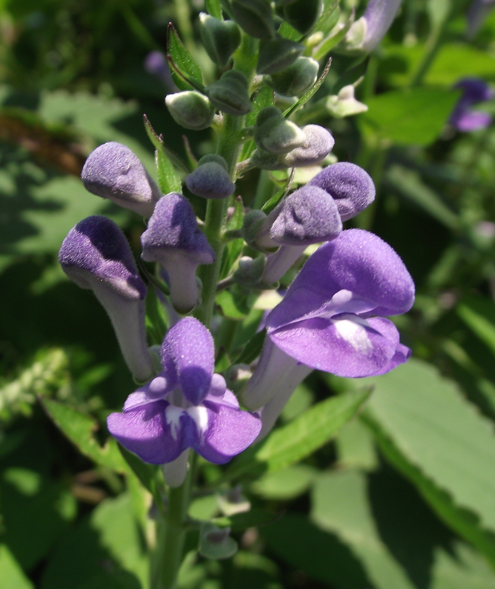 Scutellaria incana at New York Botanical Garden, Bronx, NY, USA